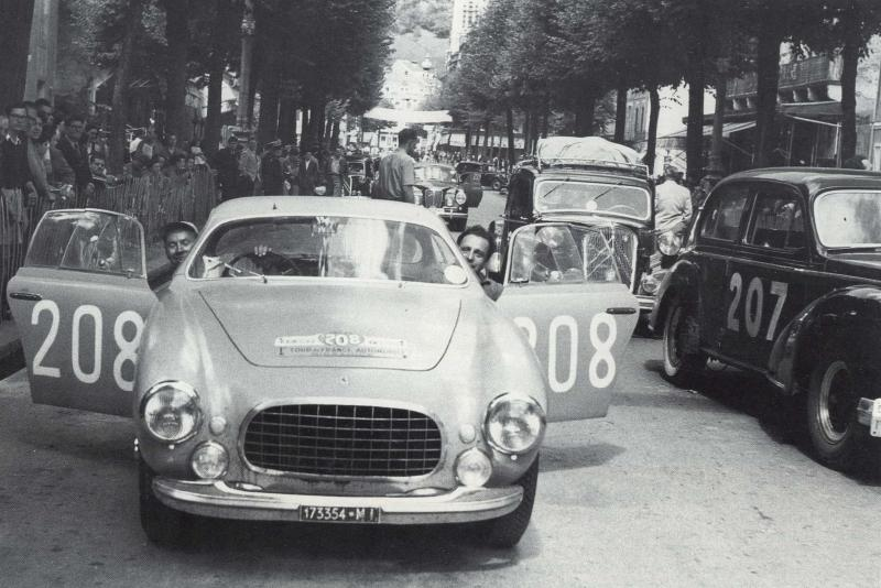 Jacques Péron (owner/driver) and Raymond Bertramnier (co-driver) in the 1951 Ferrari 212 Export Vignale Coupe s/n 0096E, entry #208 got 2nd place.[1] The race was 5 239 km and started 30 August in Nice and lasted to 12 September 1951 with arrival back in Nice. This looks to be the beginning, so 30 August.